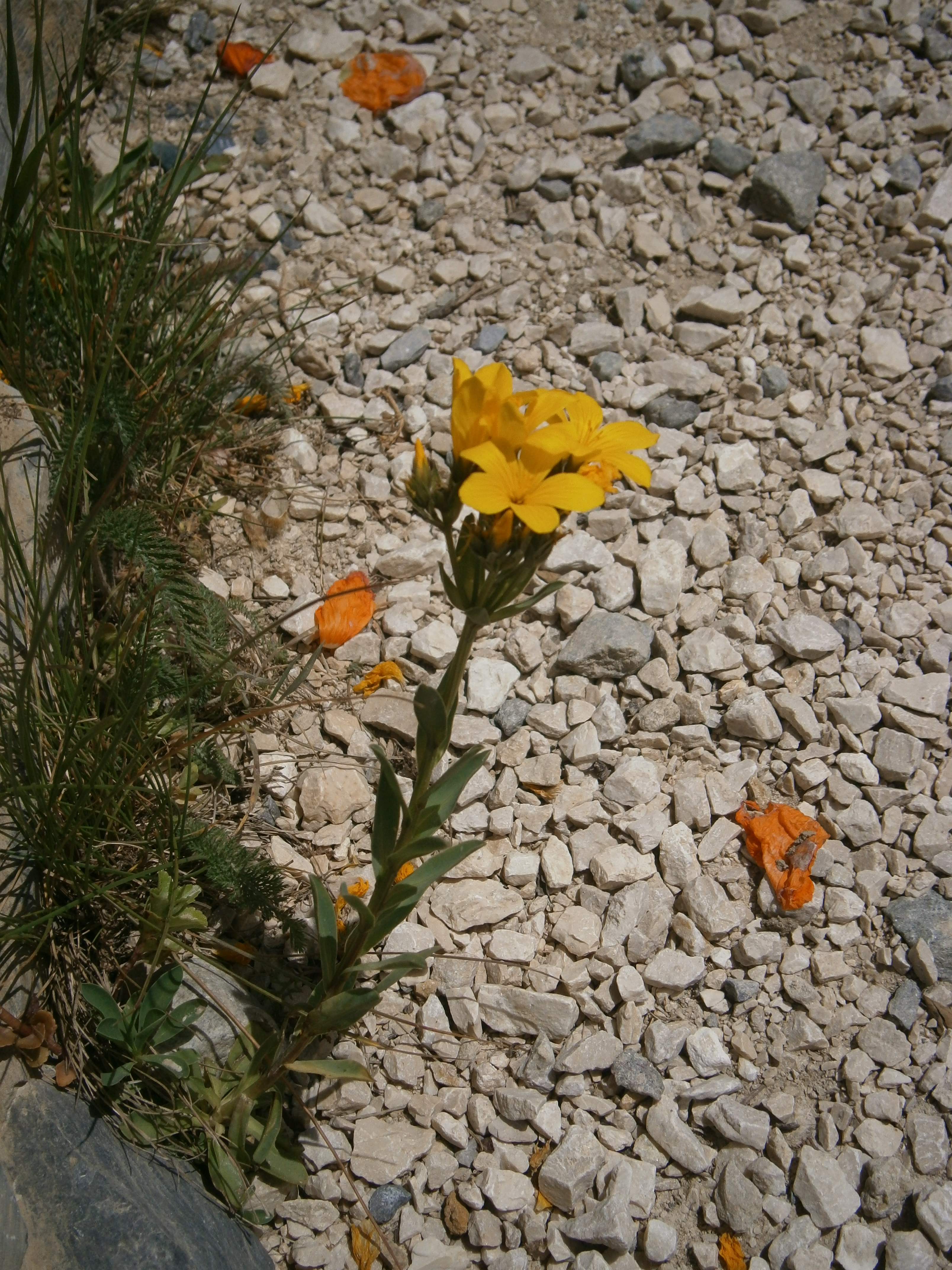 Linum flavum in the Jardin Botanique Alpin du Lautaret